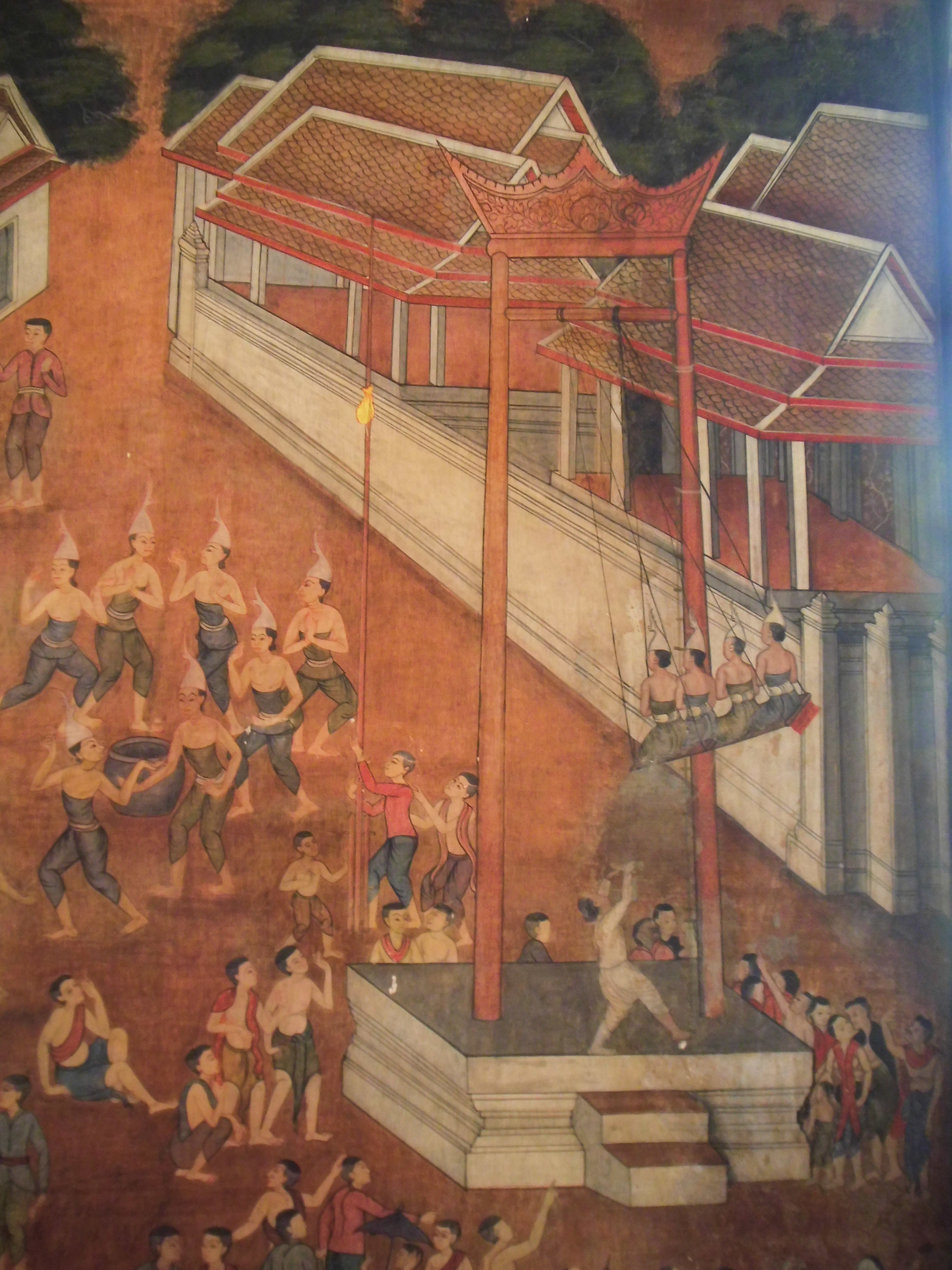 วัดเสนาสนารามราชวรวิหาร